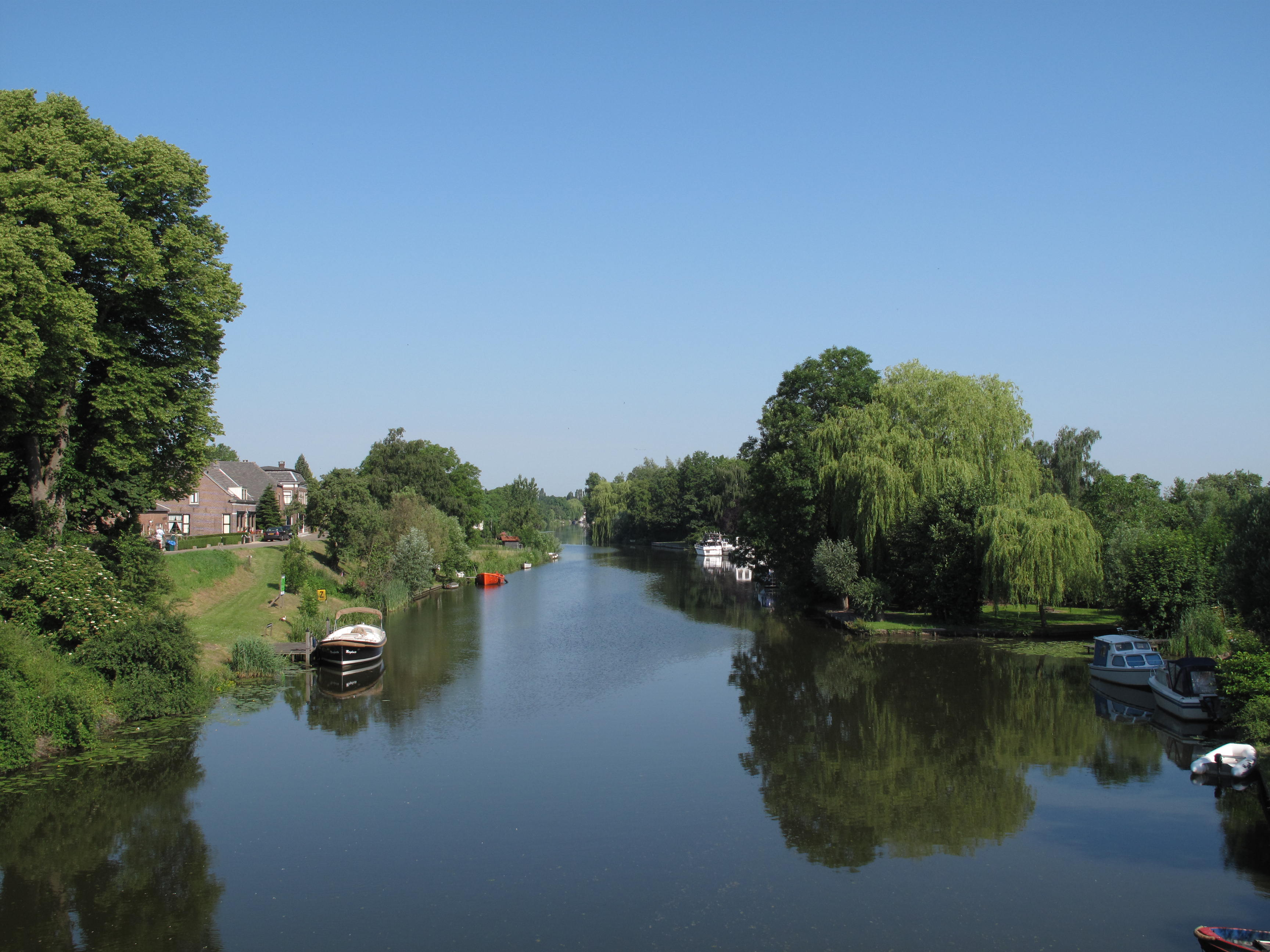 between Rumpt and Beesd, river: de Linge